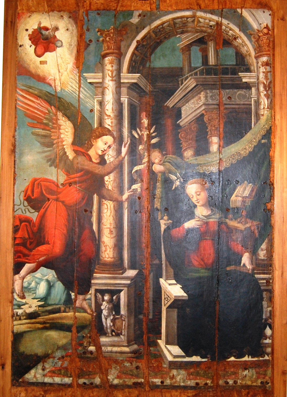 Militello in Val di Catania. Annunciation of Virgin Mary (1552)